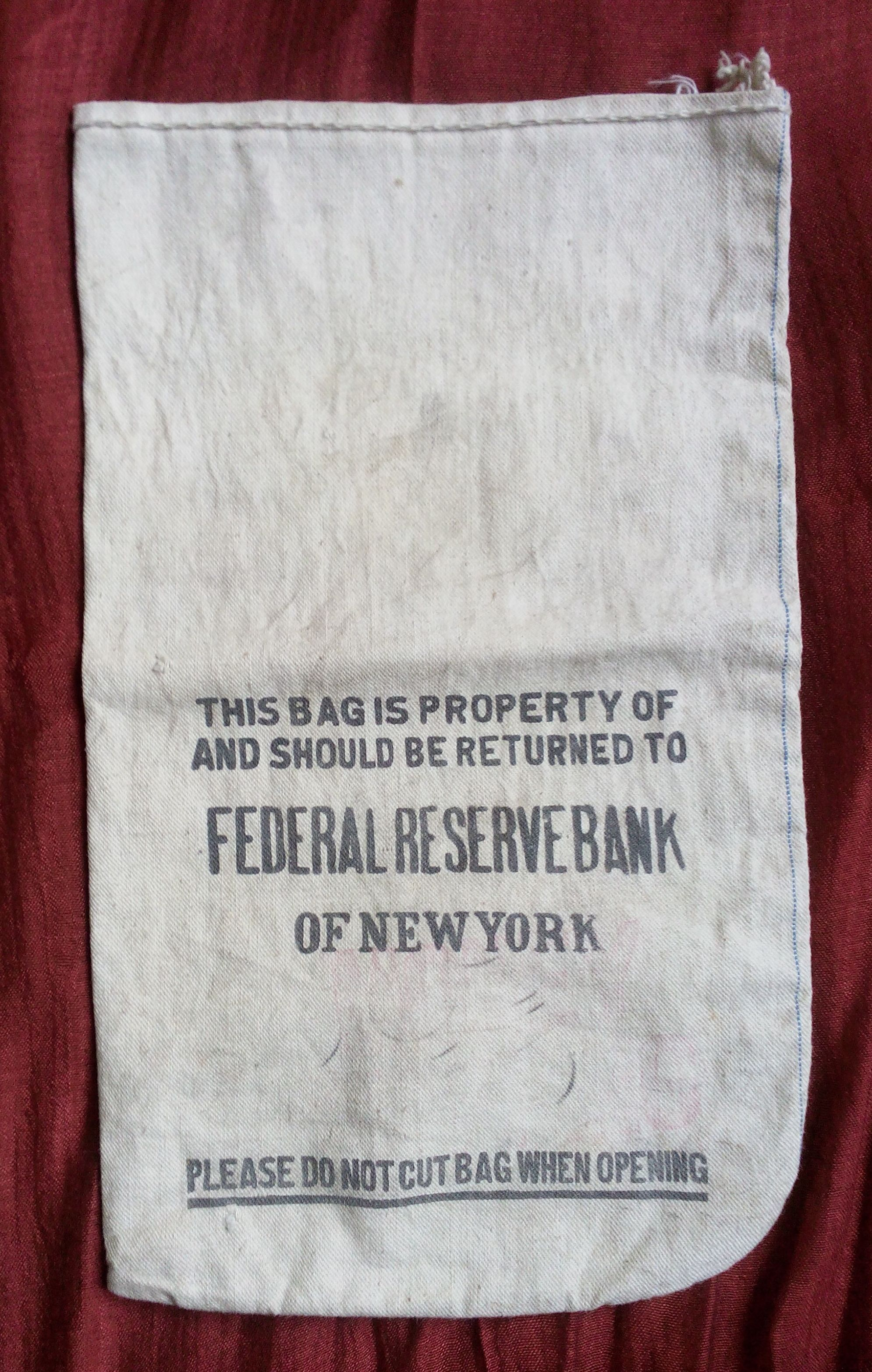 Federal Reserve Bank Cotton bag (17x30 cm) printed, year unknown